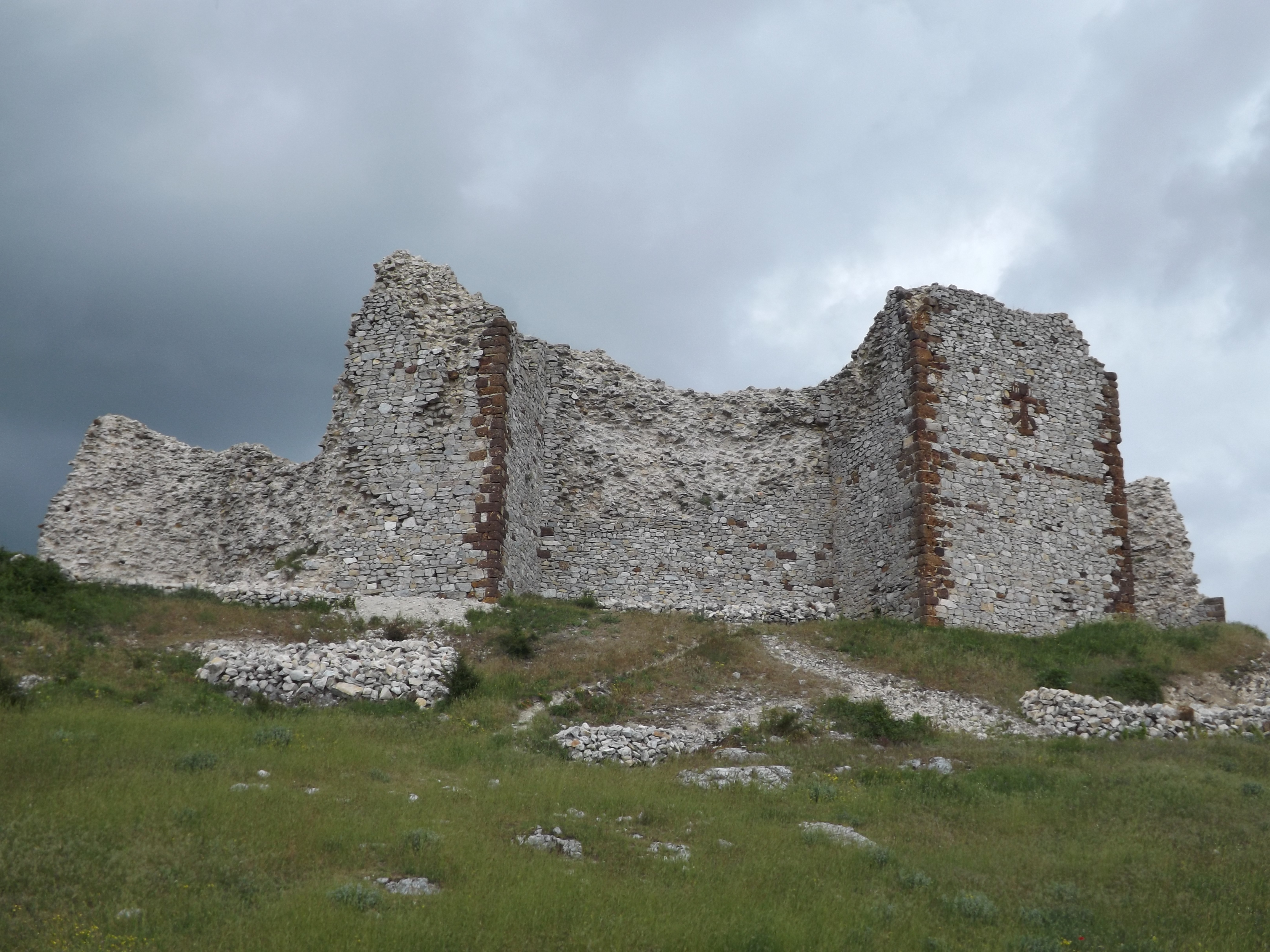 Novoberdo Castle, Novoberdo, Kosovo